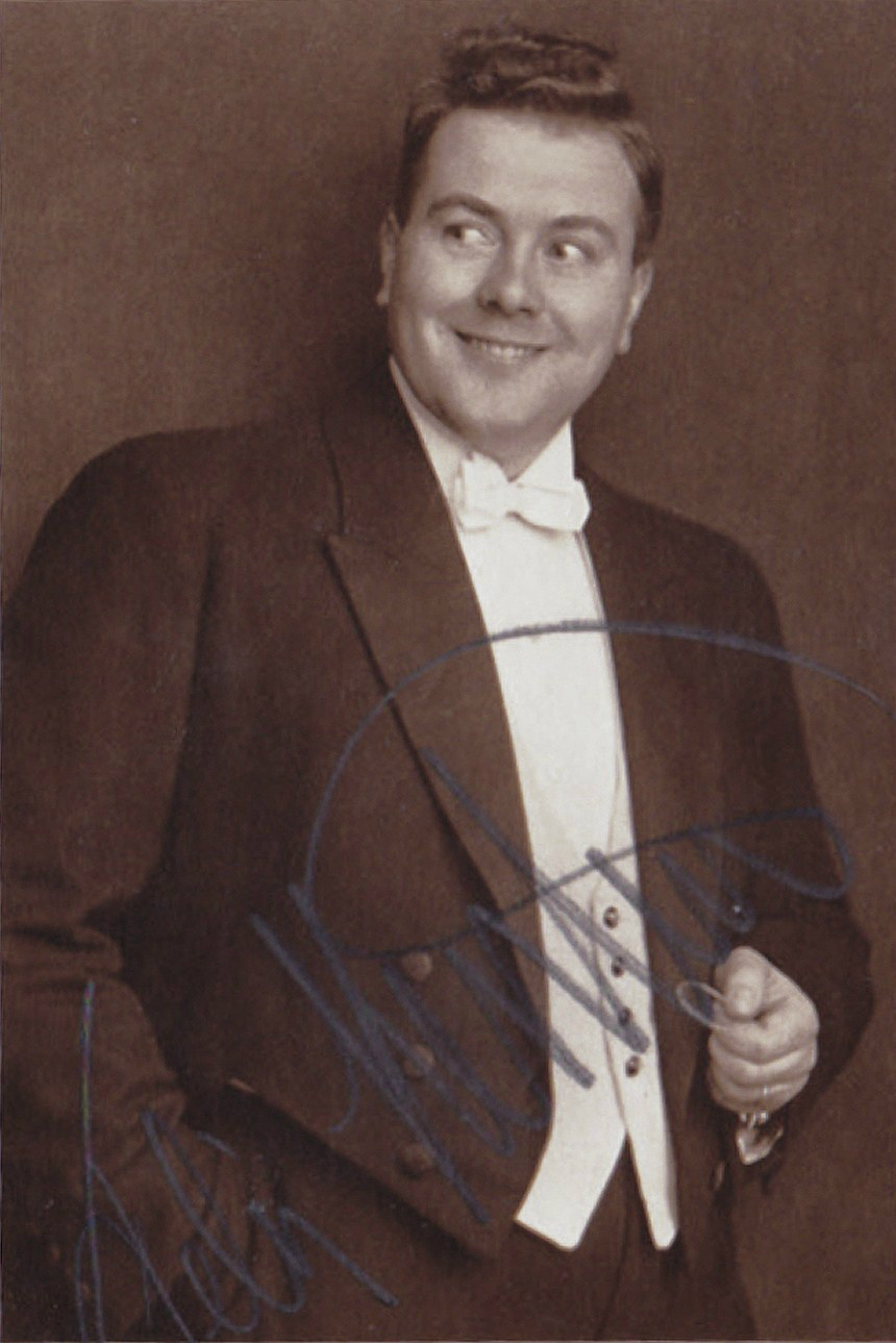 Felix Kersten, a German physical therapist.